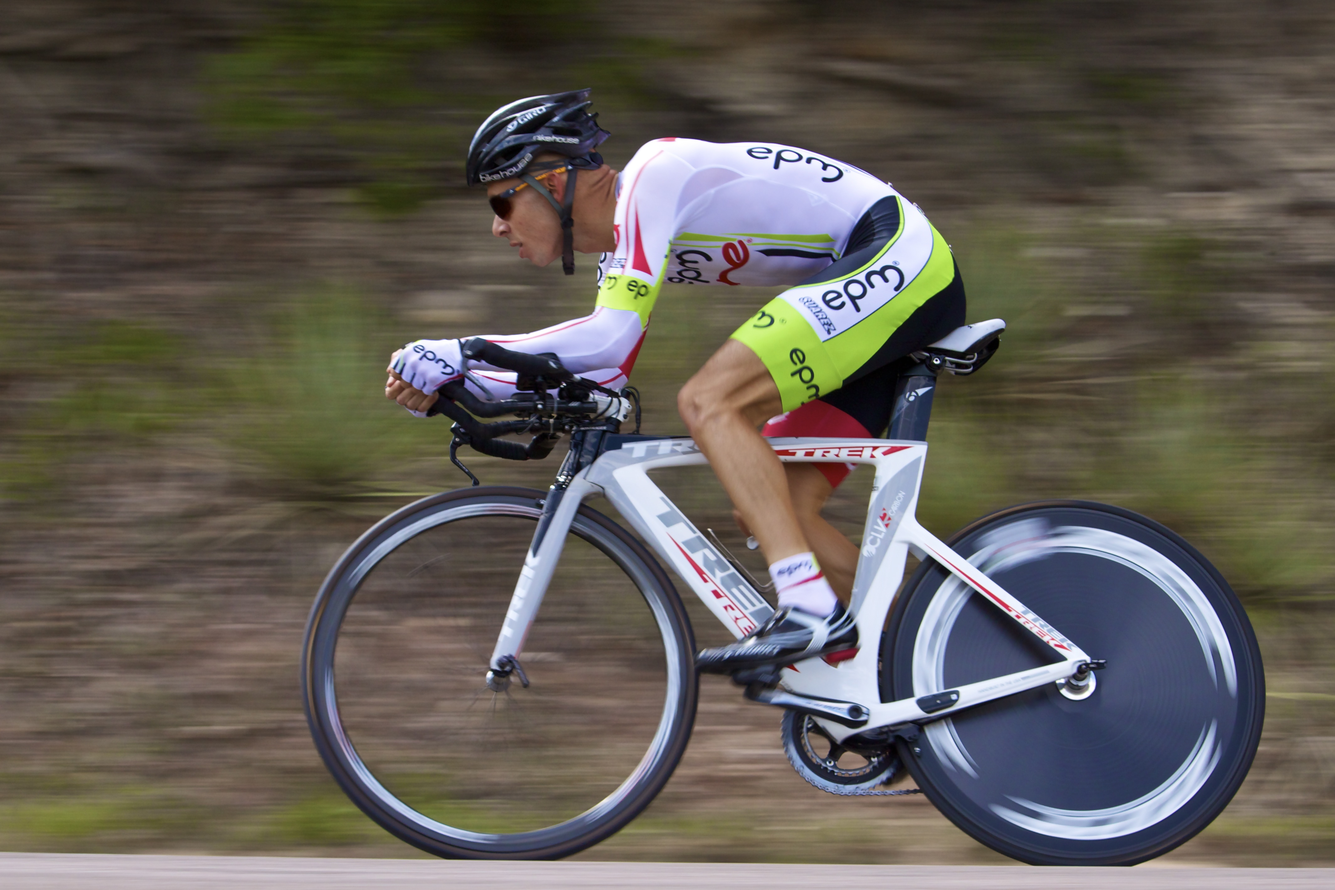 Colombian cyclist Rafel Infantino, in the 2011 USA Pro Cycling Challenge